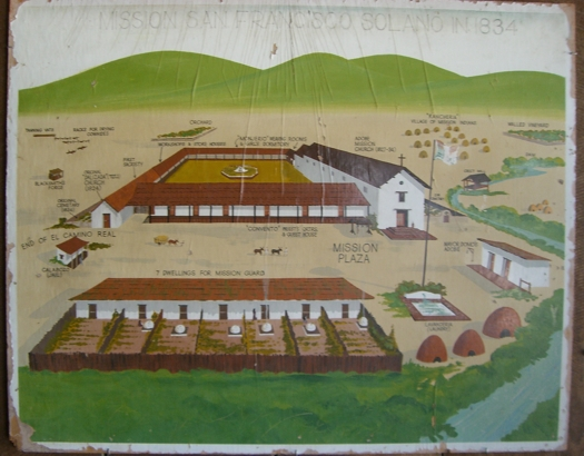 Photograph of old fanciful illustration of Mission San Francisco Solano in 1834